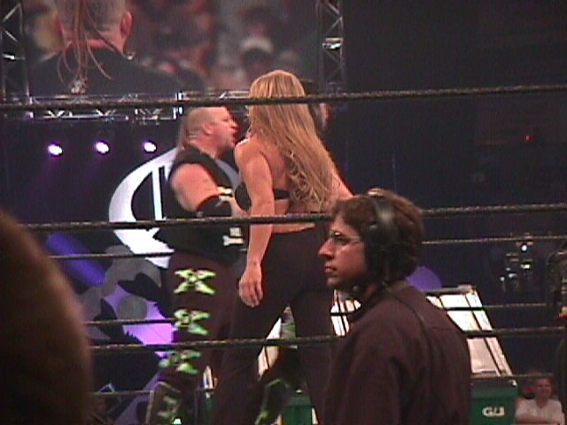 Road Dogg and Noid vixen. Can you name the vixen? Fleet Center, Boston